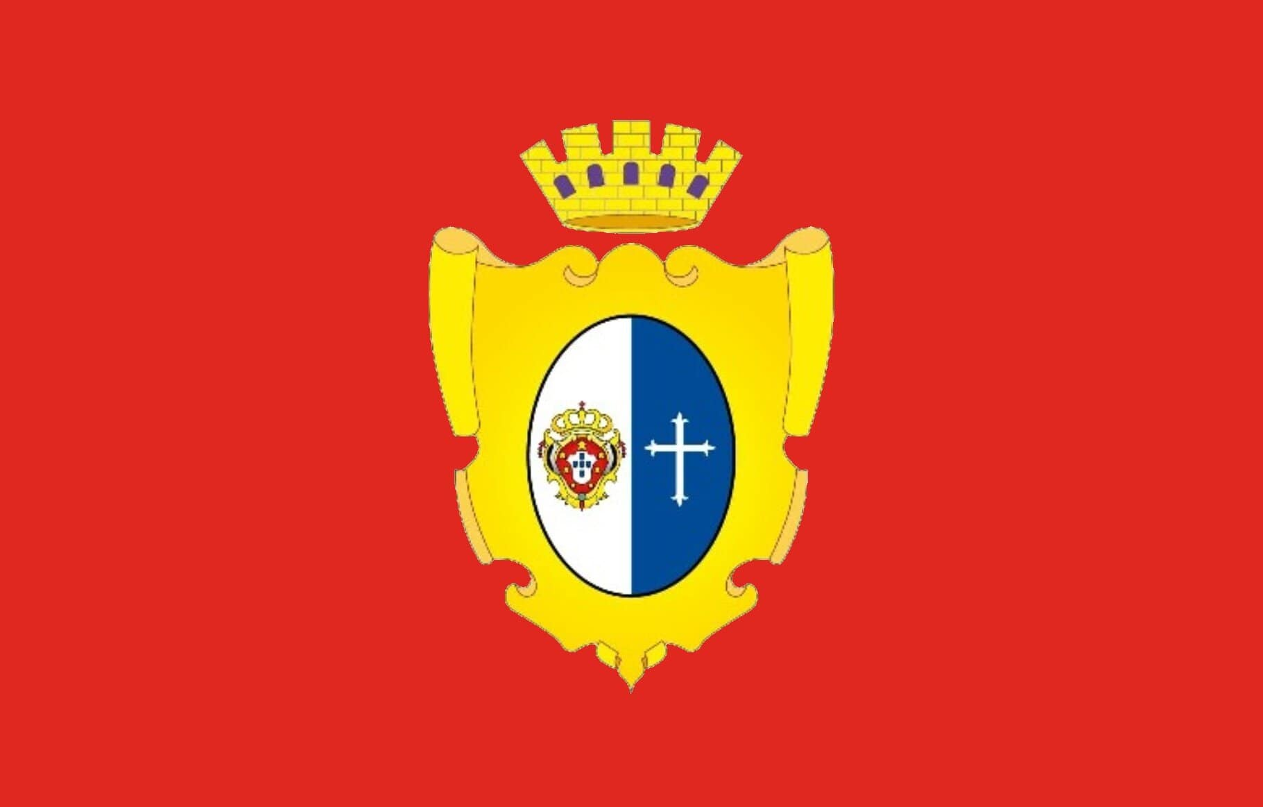 Flag of Ceará's Aracati city, Brazil.